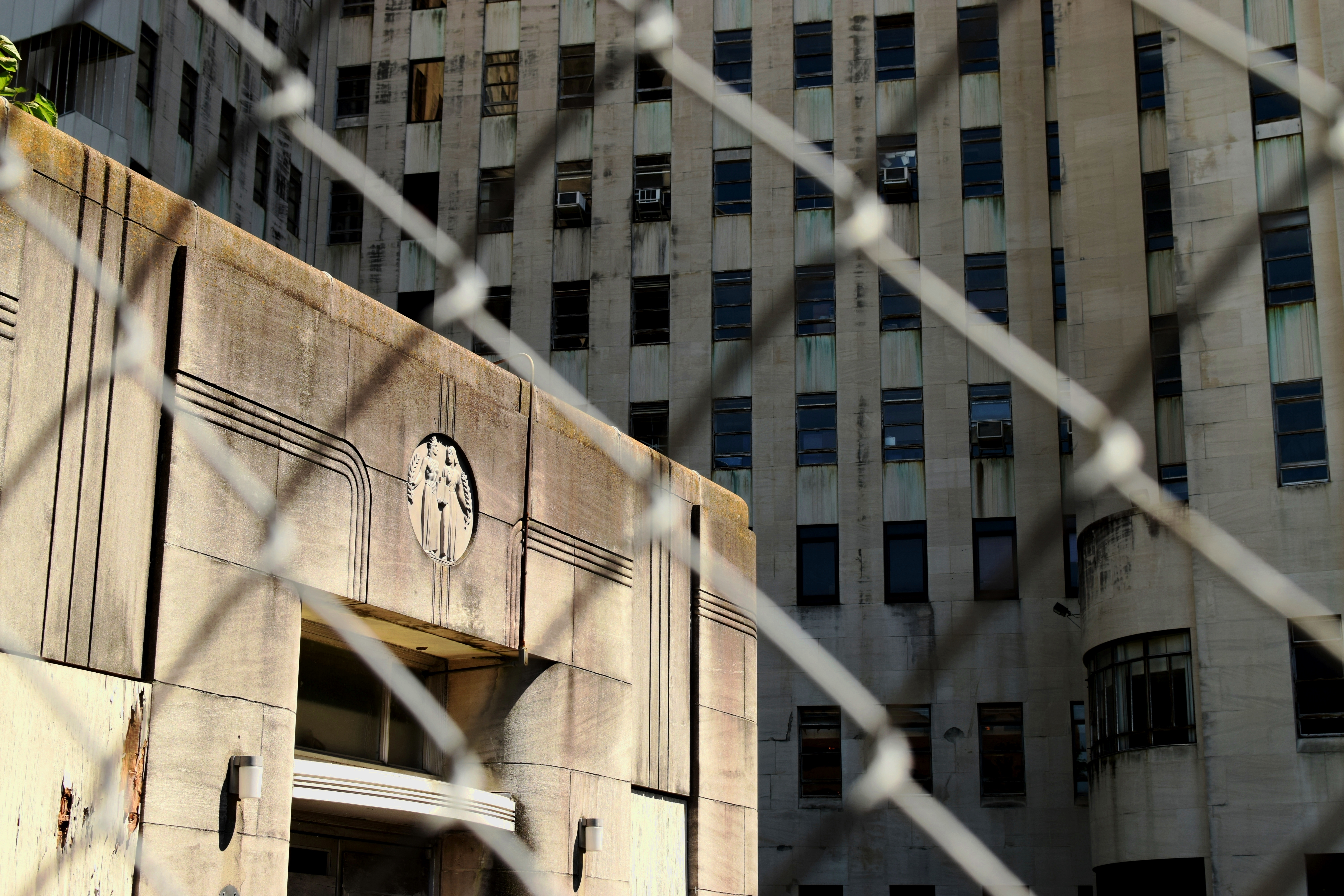 Charity Hospital in New Orleans closed after sustaining damage from Hurricane Katrina